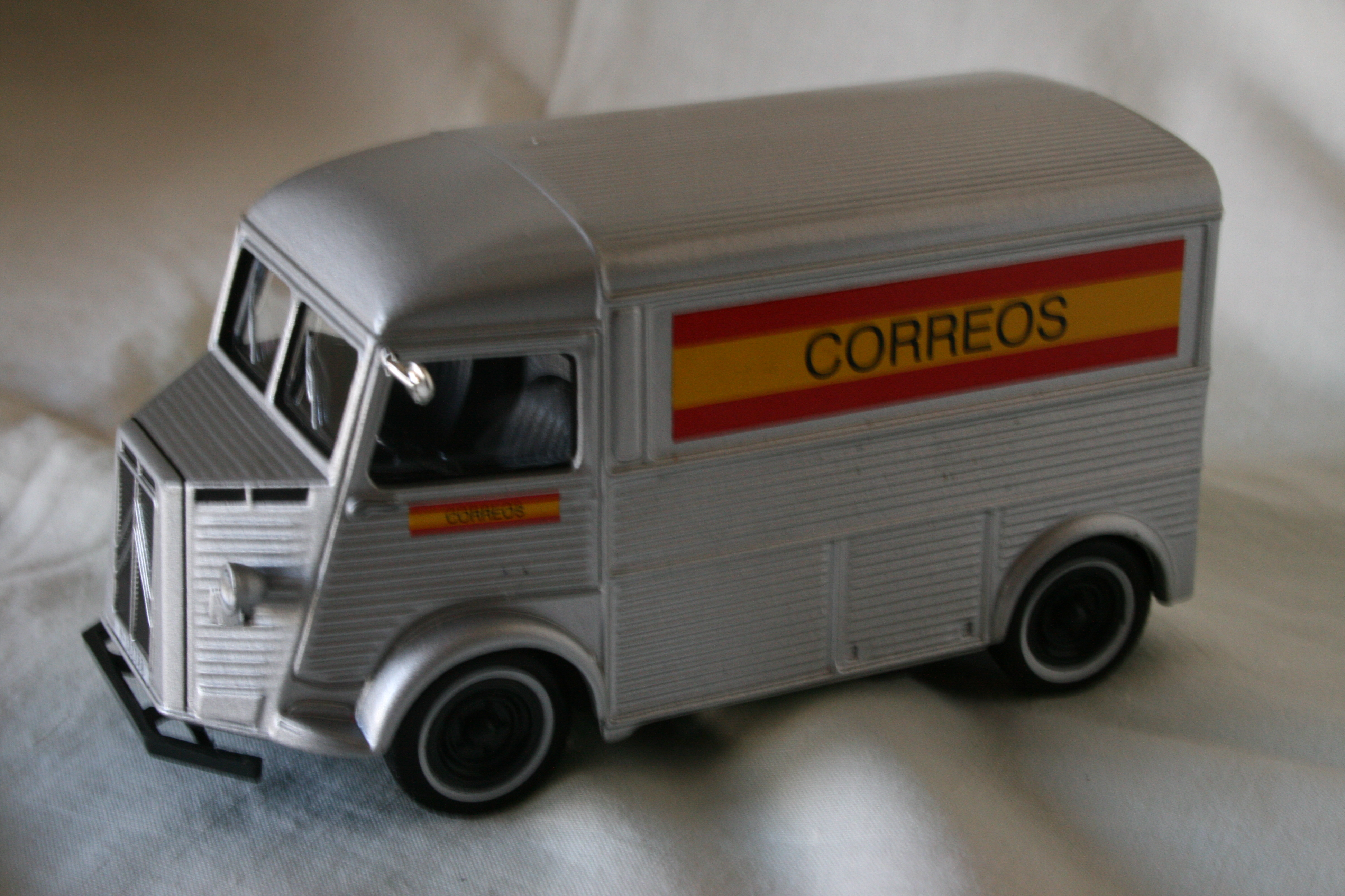 1940 decade Correos van (miniature)